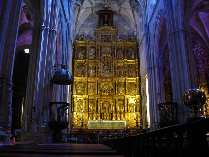 Main Altar in Saint Maria church in Carmona, Andalucia, Spain